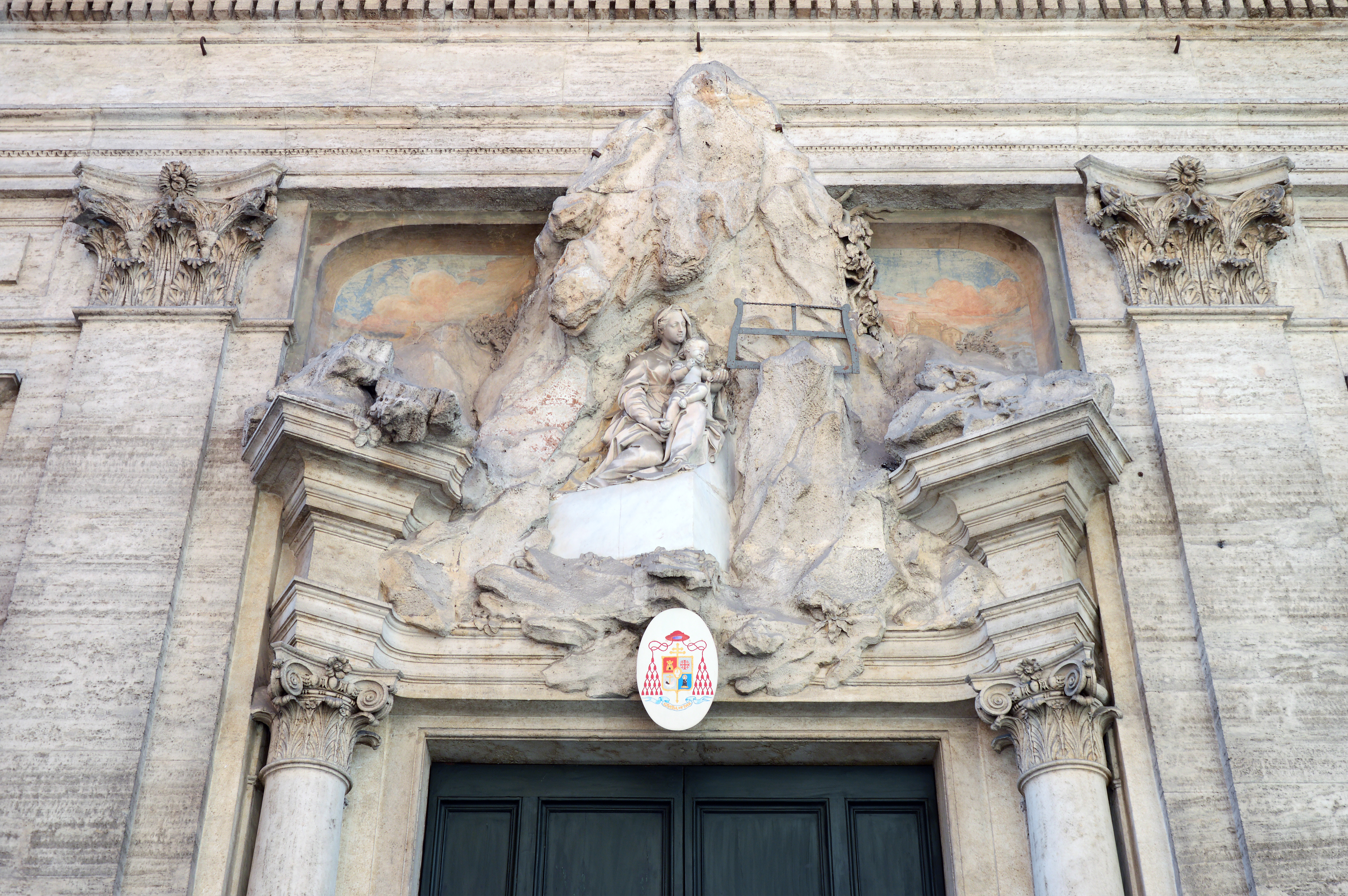 Madonna on church of Holy Mary in Monserrat of the Spaniards